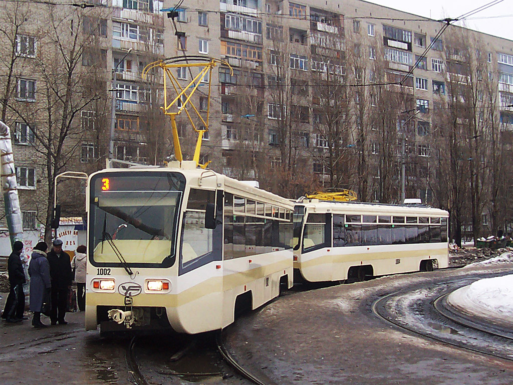 Tram cars KTM-19KT in Saratov (#1002+#1004).